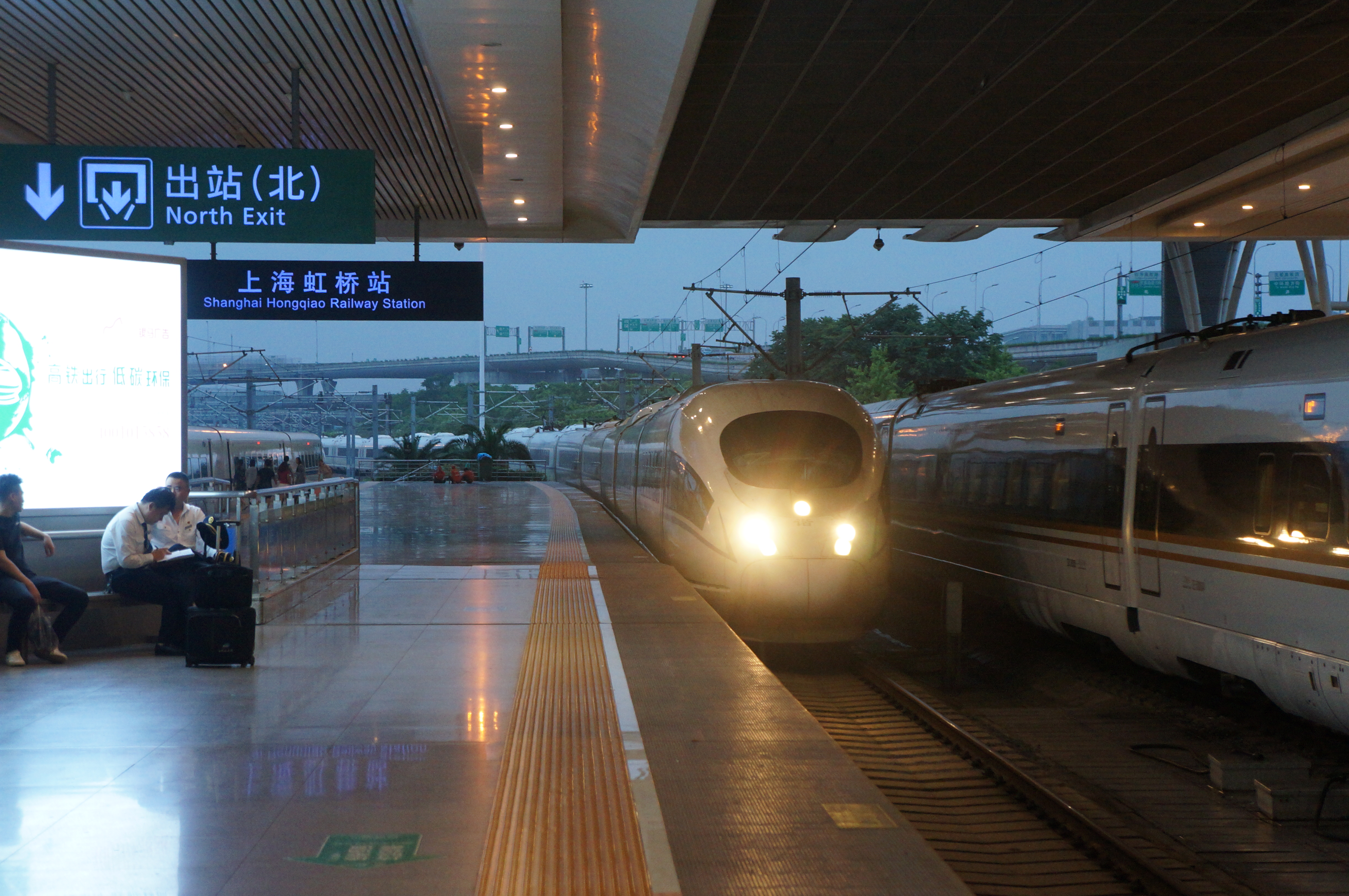 201805 G675 from Wuhan arrives at Shanghai Hongqiao Station